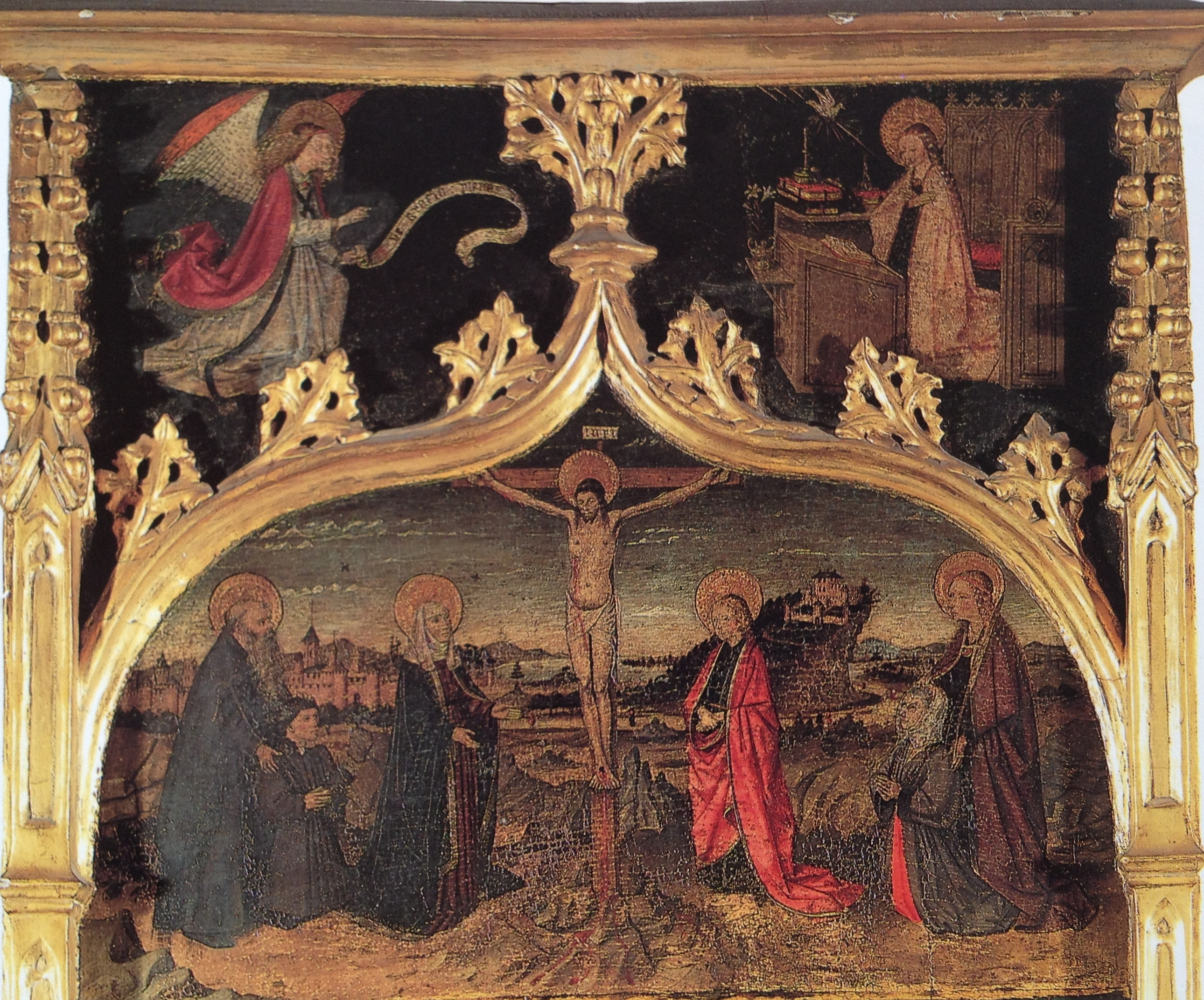 Jaume Huguet artwork Artist Jaume Huguet (1412–1492) DescriptionCatalan painterDate of birth/deathcirca 14121492Location of birth/deathVallsBarcelonaWork locationBarcelona, Zaragoza, TarragonaAuthority control VIAF: 96539132 ISNI: 0000 0001 1776 8460 ULAN: 500115623 LCCN: nr94026707 WGA: HUGUET, Jaume WorldCat TitleRetaule de l'EpifaniaDescription Nativitat i Crucifixió Datecirca 1455Mediumtempera on panel,DimensionsHeight: 122 cm (48 in). Width: 75 cm (29.5 in).Current location Museu Episcopal de Vic Native nameMuseu Episcopal de VicLocationVic, provincia de Barcelona, (Spain)Coordinates41° 55′ 43″ N, 2° 15′ 20″ E Established1891Website control VIAF: 136050720 ISNI: 0000 0001 2164 425X ULAN: 500312506 LCCN: n85118280 GND: 1088816096 WorldCat Source/PhotographerOwn workPermission (Reusing this file) This is a faithful photographic reproduction of a two-dimensional, public domain work of art. The work of art itself is in the public domain for the following reason: This work is in the public domain in its country of origin and other countries and areas where the copyright term is the author's life plus 100 years or less. You must also include a United States public domain tag to indicate why this work is in the public domain in the United States. This file has been identified as being free of known restrictions under copyright law, including all related and neighboring rights. The official position taken by the Wikimedia Foundation is that "faithful reproductions of two-dimensional public domain works of art are public domain". This photographic reproduction is therefore also considered to be in the public domain in the United States. In other jurisdictions, re-use of this content may be restricted; see Reuse of PD-Art photographs for details. Nativitat i Crucifixió